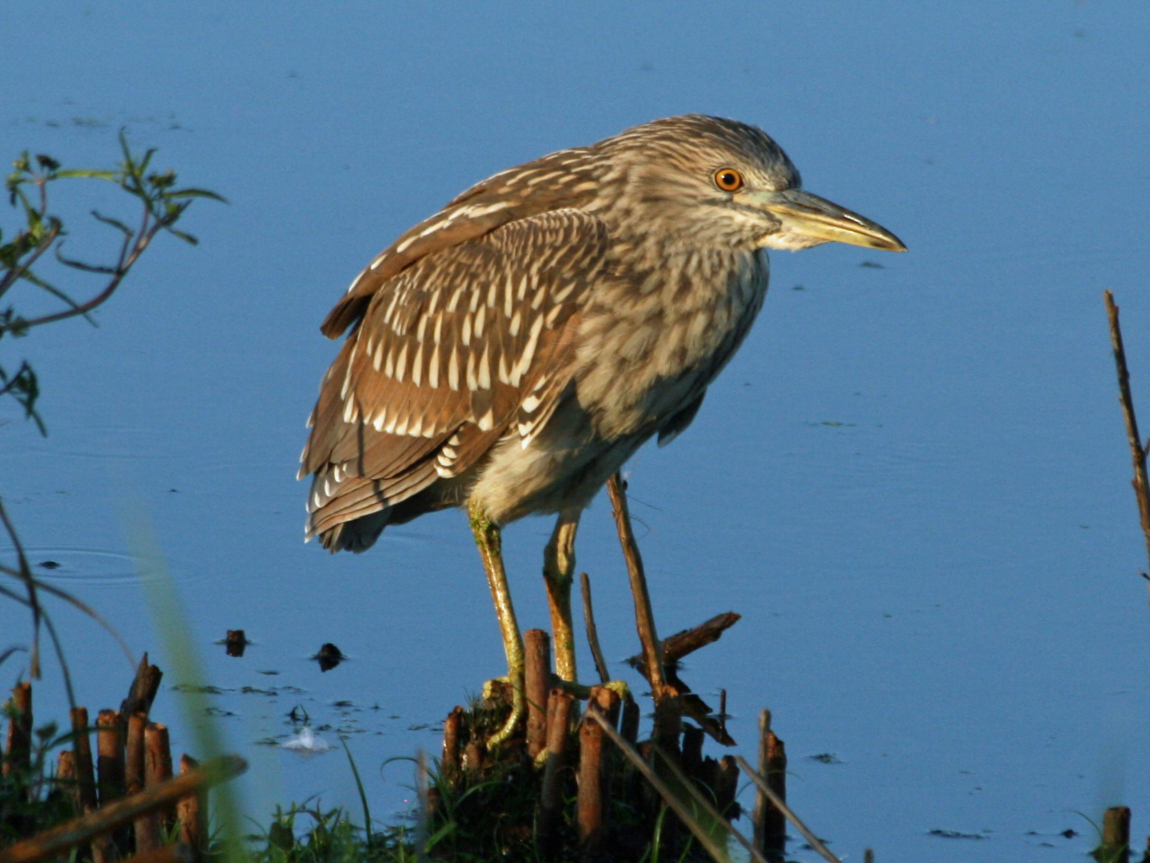 Black-crowned Night-Heron_(Nycticorax nycticorax) at Cape May, New Jersey, USA. A juvenile.